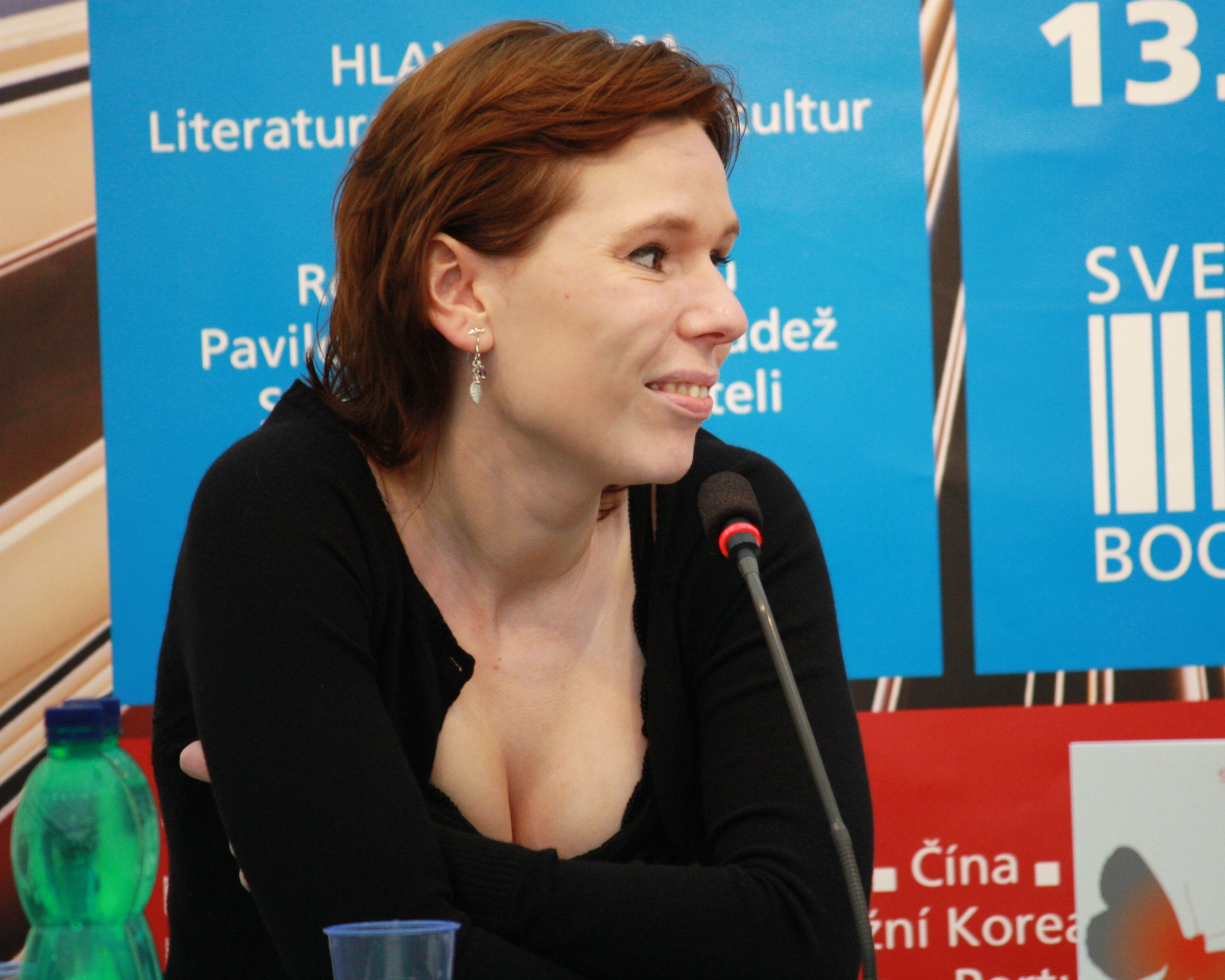 Česky: Svět knihy 2010 - Annelies Verbeke This photograph was taken with DSLR from WMCZ's Camera grant This tag does not indicate the copyright status of the attached work. A normal copyright tag is still required. See Commons:Licensing for more information. Personality rights warning This work depicts one or more identifiable persons. The use of depictions of living or deceased persons may be restricted by laws regarding personality rights. The extent of these restrictions depends on jurisdiction. Personality rights restrictions apply independently of copyright. Before using this content, please ensure that the intended use does not infringe any personality rights under applicable laws. You are solely responsible for ensuring that you do not infringe someone else's personality rights. See our general disclaimer.